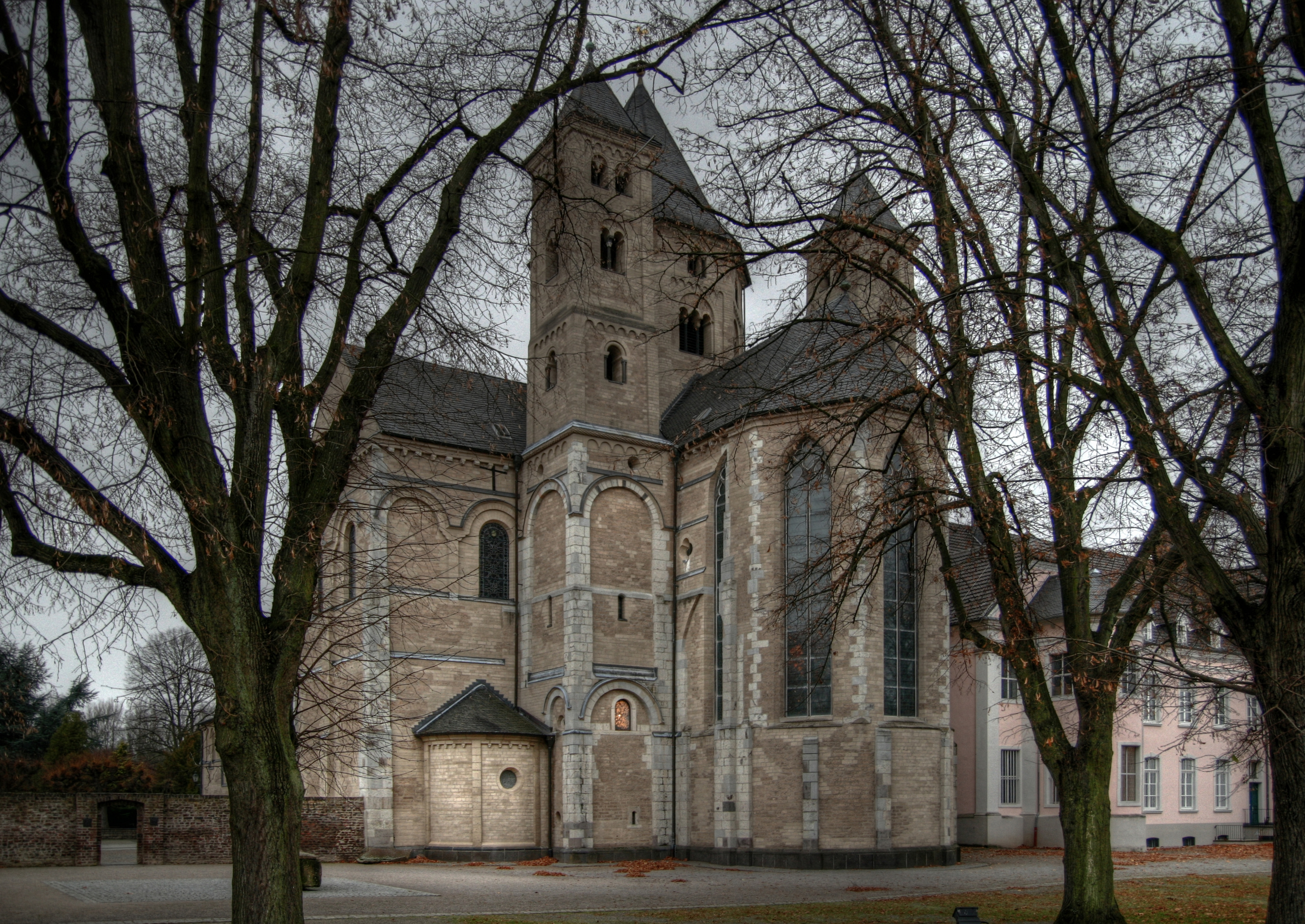 Knechtsteden Abbey in Germany